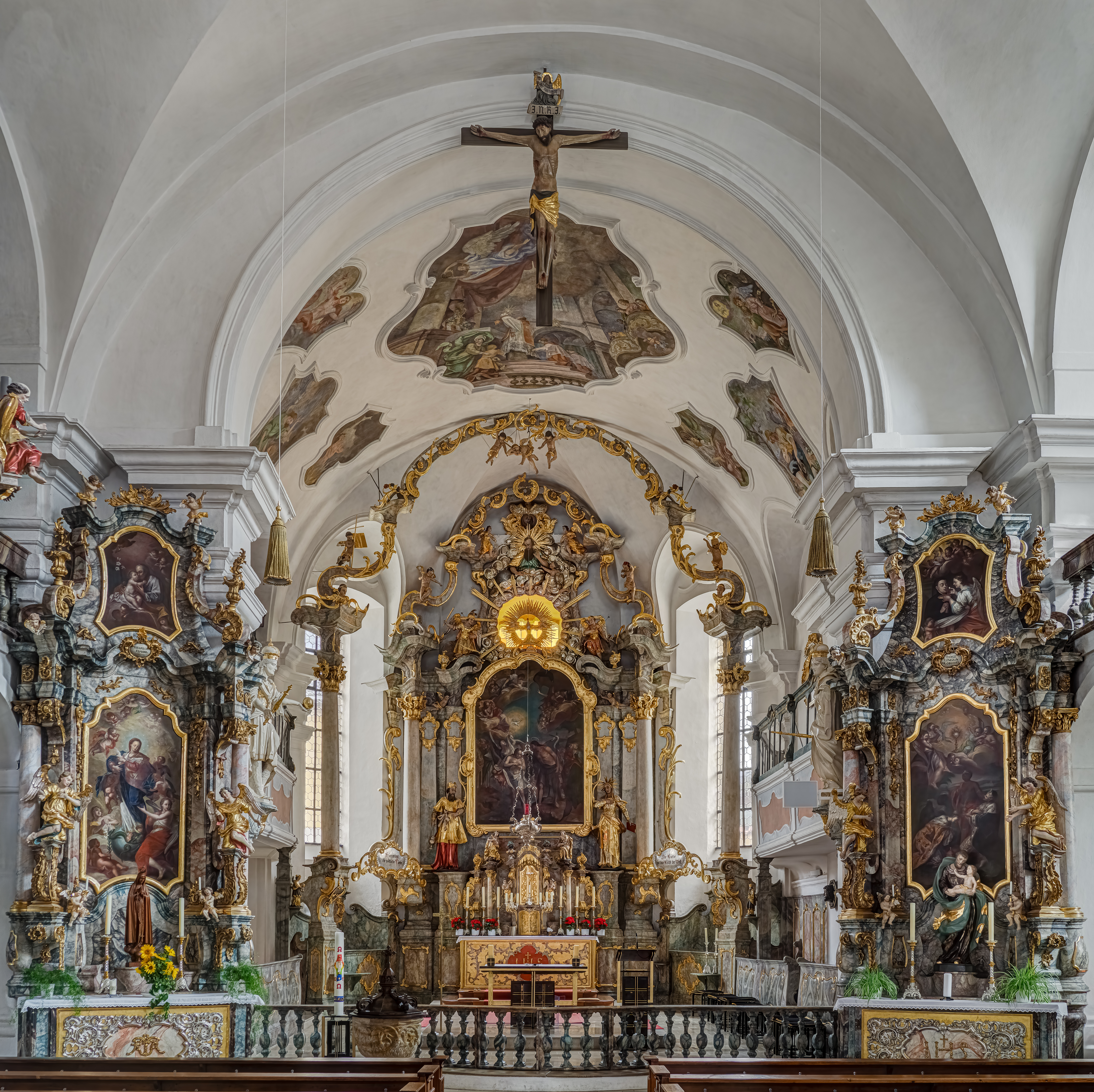 Altar room of the church St. John the Baptist in Auerbach in the Upper Palatinate